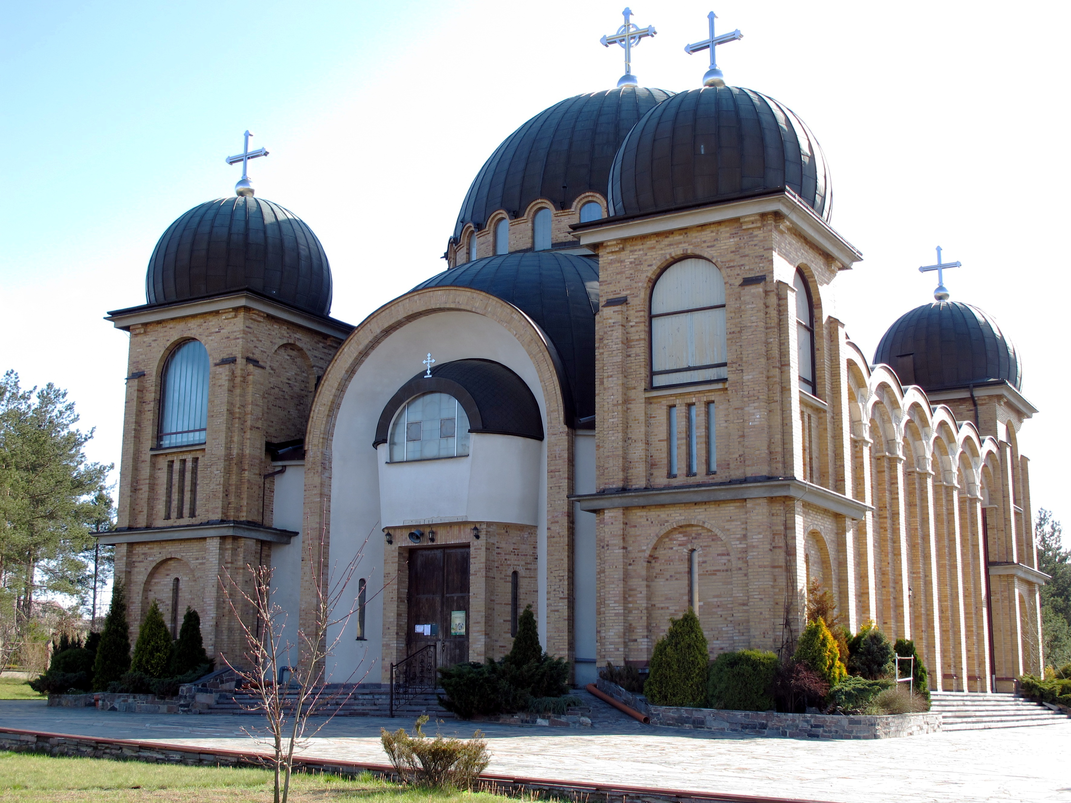 Cerkiew of God's Wisdom 5 Trawiasta street, Białystok, podlaskie, Poland.